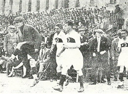 Turkey's first match against Romania